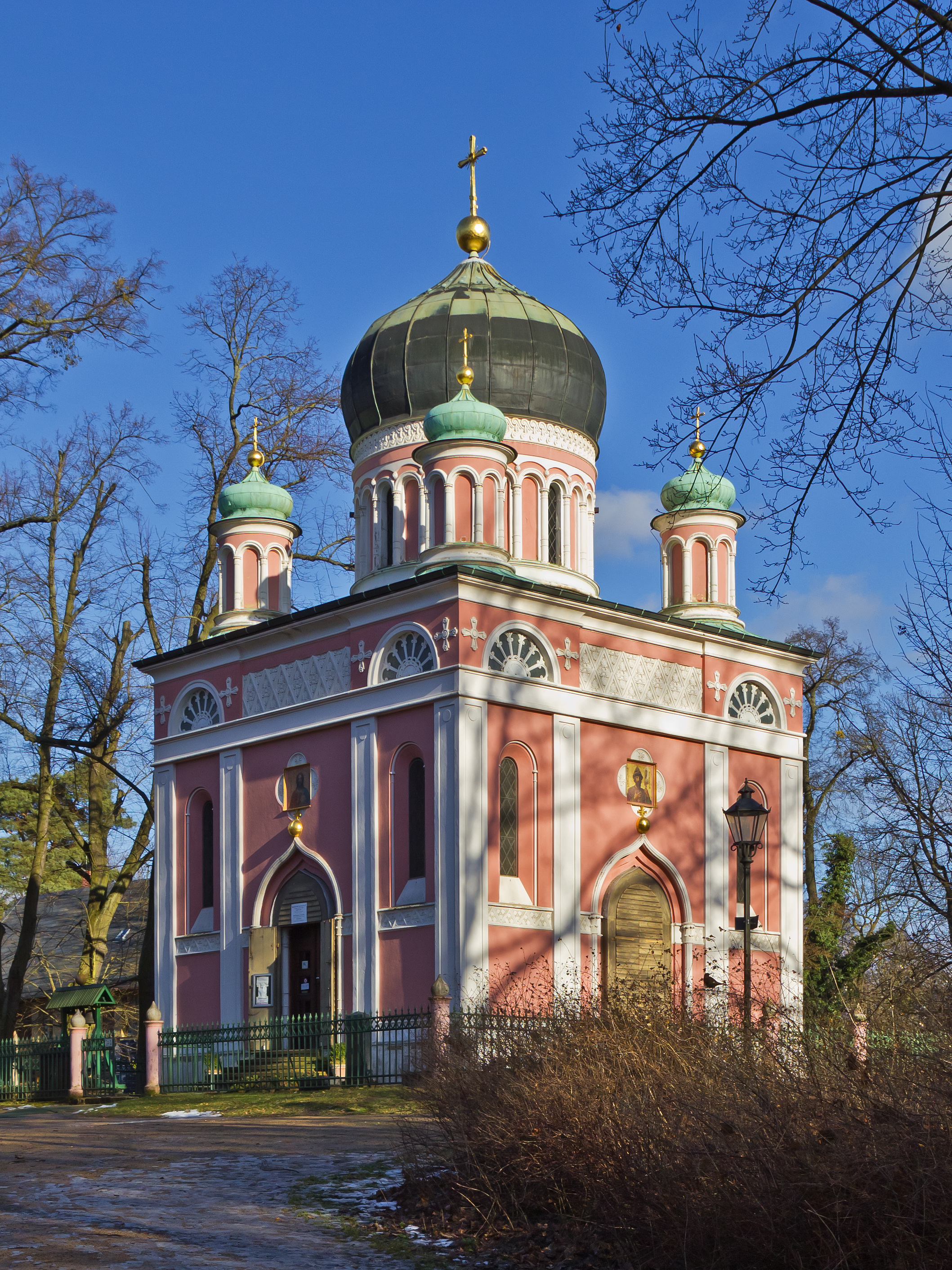 Russian settlement Alexandrowka in Potsdam, Germany. The Church of St. Alexander Nevsky.